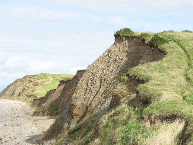 Boulder Clay Cliffs This photo was taken in the northern part of the square and shows clearly the friable nature of the boulder clay cliffs. In the distance are the seaward ramparts of Dinas Dinlle Iron Age Fort SH4356.